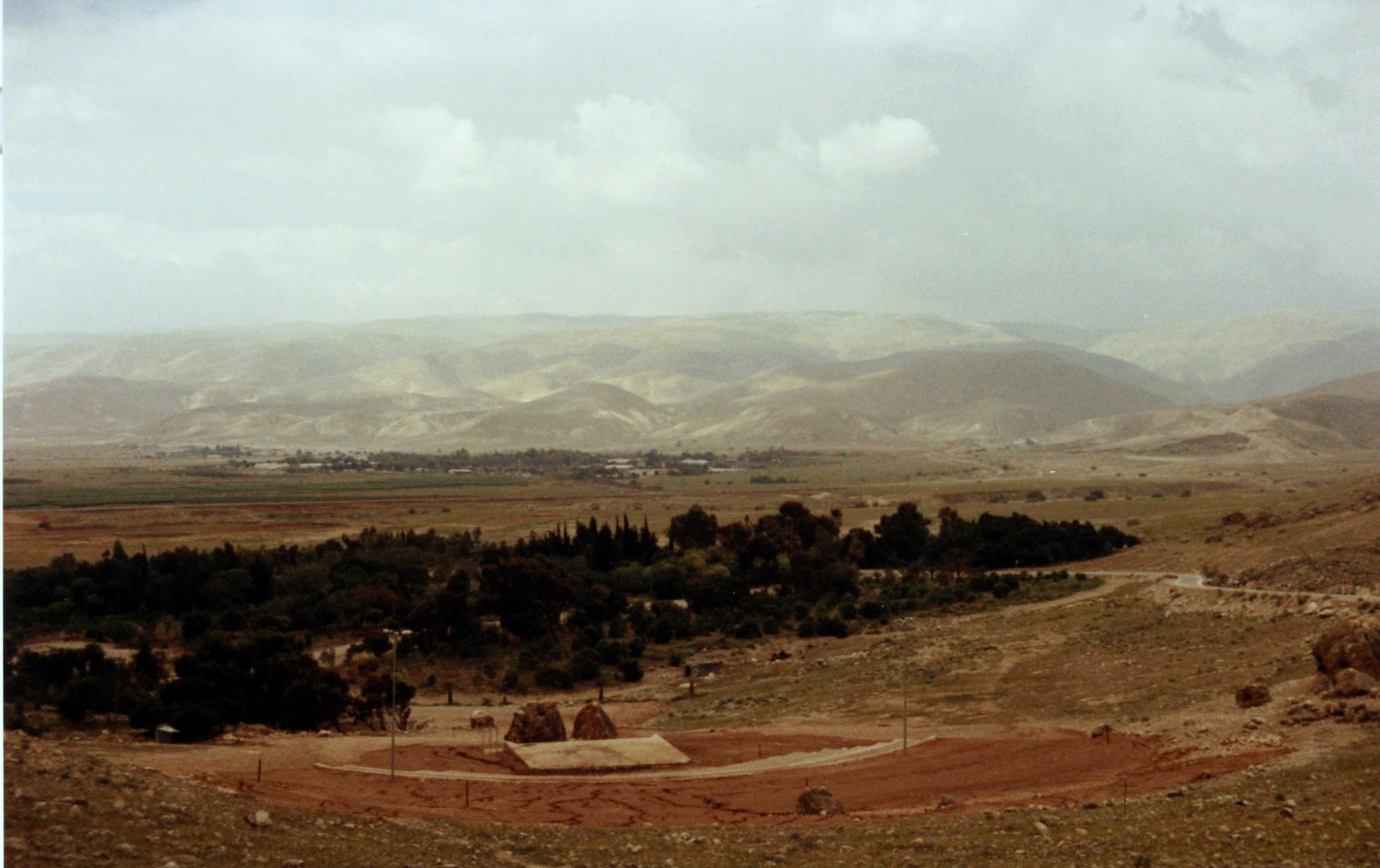 Jordan Valley, view from Andartat Habikaa to the south. The mountains are the eastern side of the Ephraim mountains. The amphitheater is in memory of Avraham elran. The settlment is Petza'el.